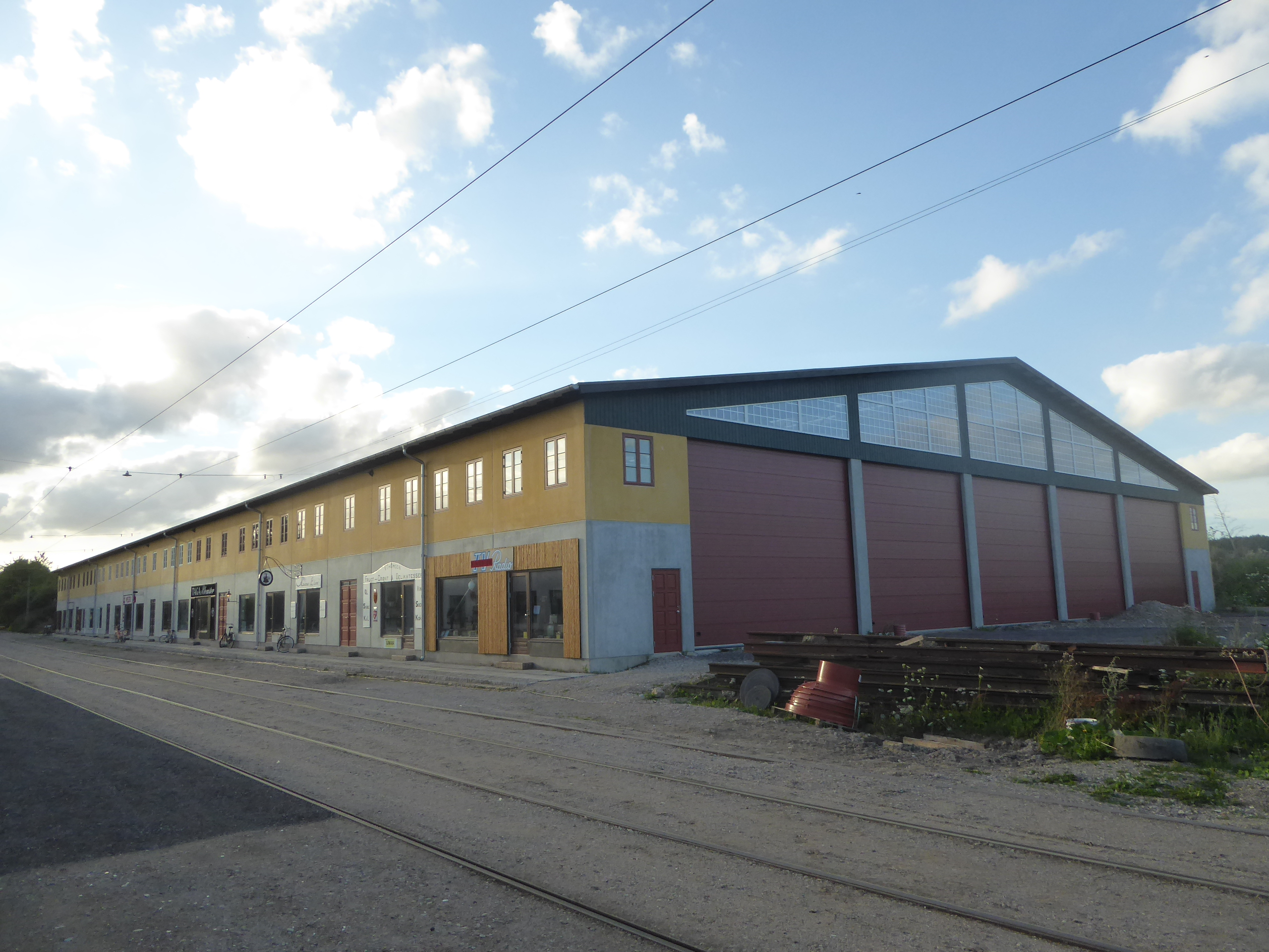 The tram depot Remise 3 at Sporvejsmuseet Skjoldenæsholm in Denmark. The left side of the depot is made to look like a row of buildings with various shops.